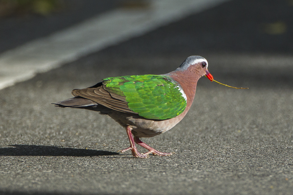 Emerald Dove - Khao Yai - Thailand_S4E5692